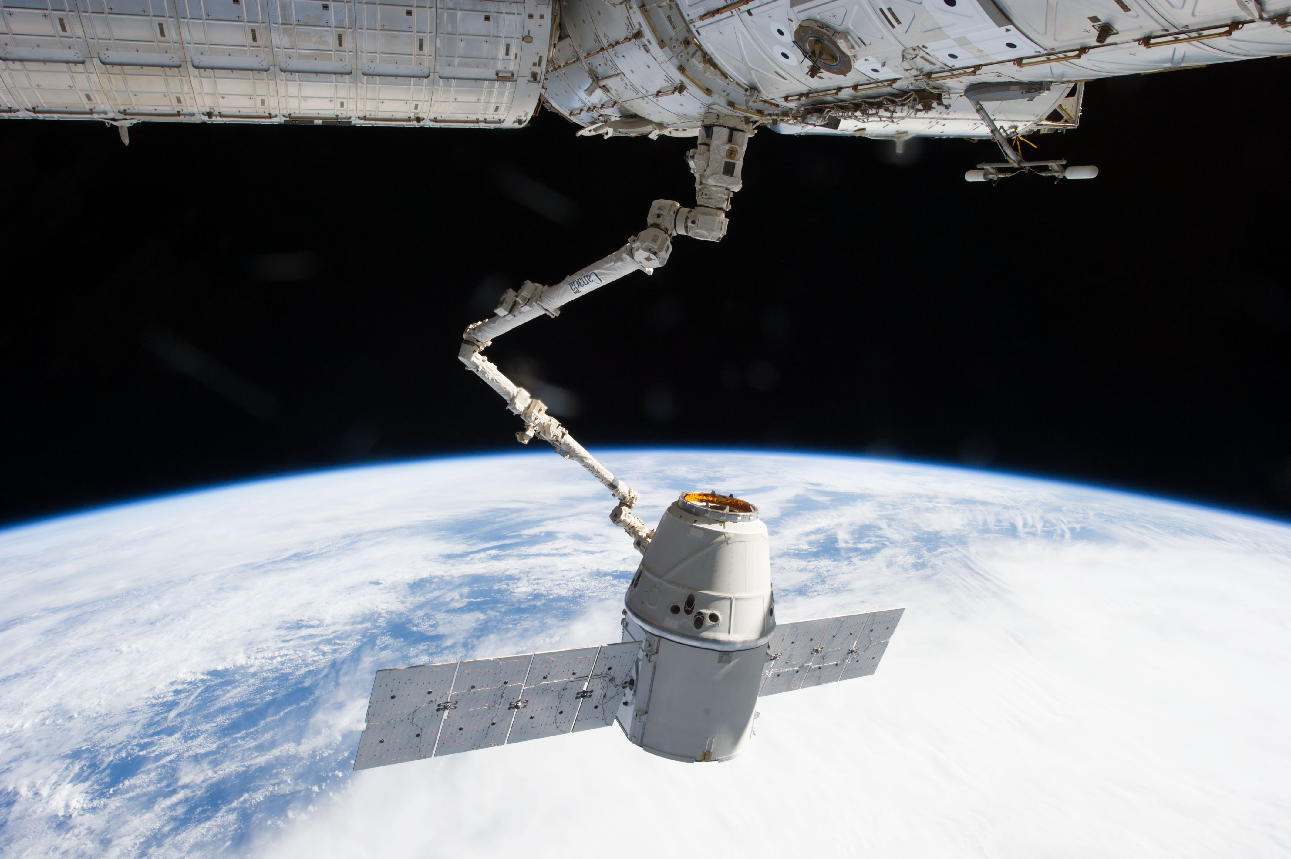 This is one of a series of photos taken by the Expedition 34 crew members aboard the International Space Station during the March 3 approach, capture and docking of the SpaceX Dragon. A blue and white Earth and the blackness of space share the background for this image, featuring Dragon in the grasp of the Space Station Remote Manipulator System or Canadarm2. The spacecraft begins a scheduled three-week-long stay at the orbiting space station.